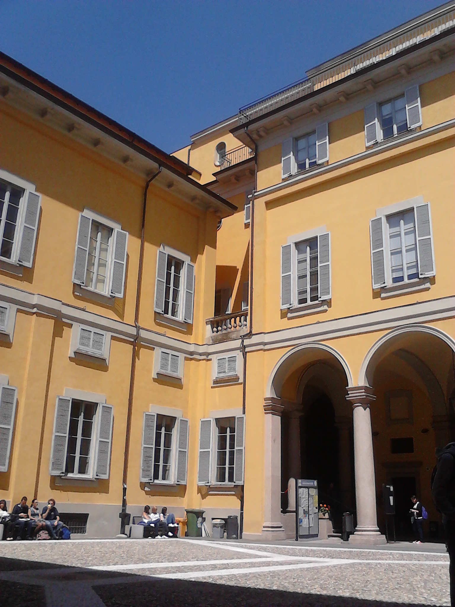 Palazzo_Resta_Pallavicino_Milan_Court